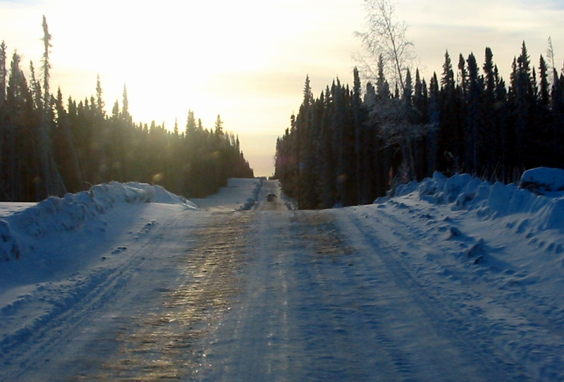 Iceroad in northern British Columbia, Canada